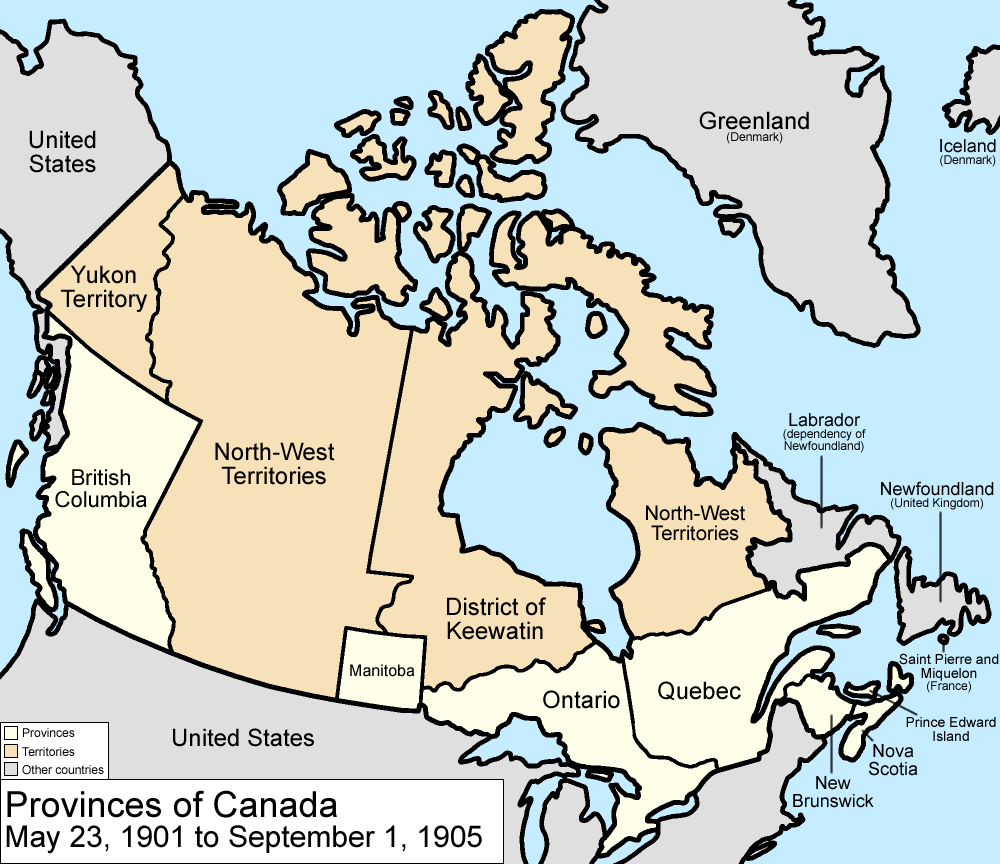 Map of the provinces and territories of Canada as they were between 1901 and 1905. Sometime in 1901, the borders of Yukon Territory were changed, gaining area from the North-West Territories. On September 1 1905, the provinces of Alberta and Saskatchewan were cleaved from the North-West Territories, and the District of Keewatin was remerged with the North-West Territories. Made by User:Golbez.